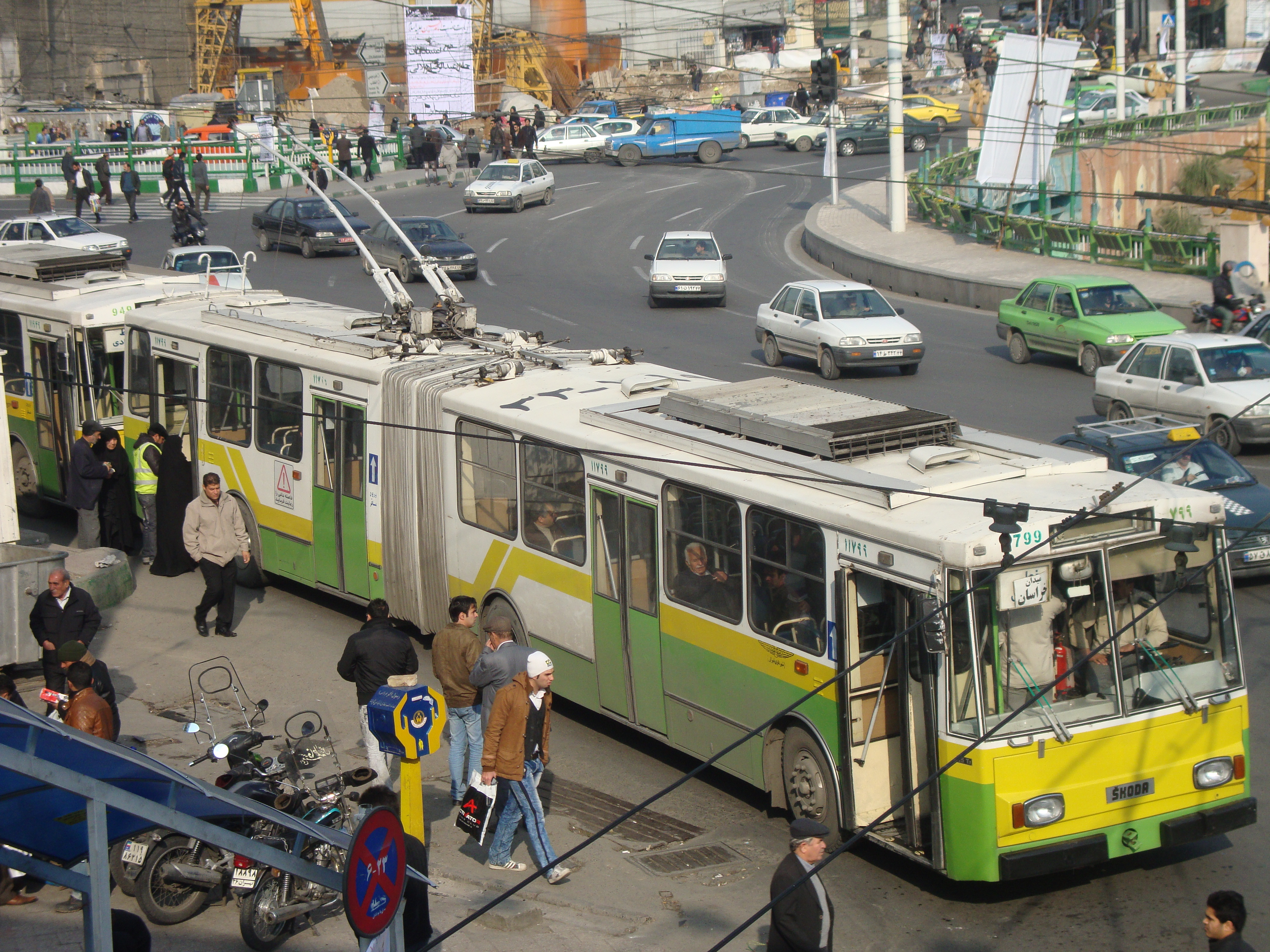 Trolleybus in Tehran, Imam Hossein sq